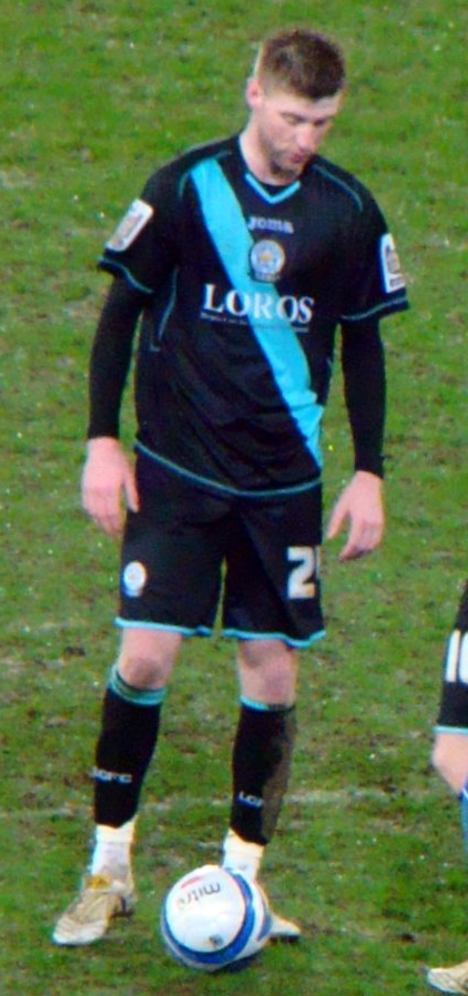 30/03/10 Cardiff V Leicester, Championship, Cardiff City Stadium, Cardiff, Wales